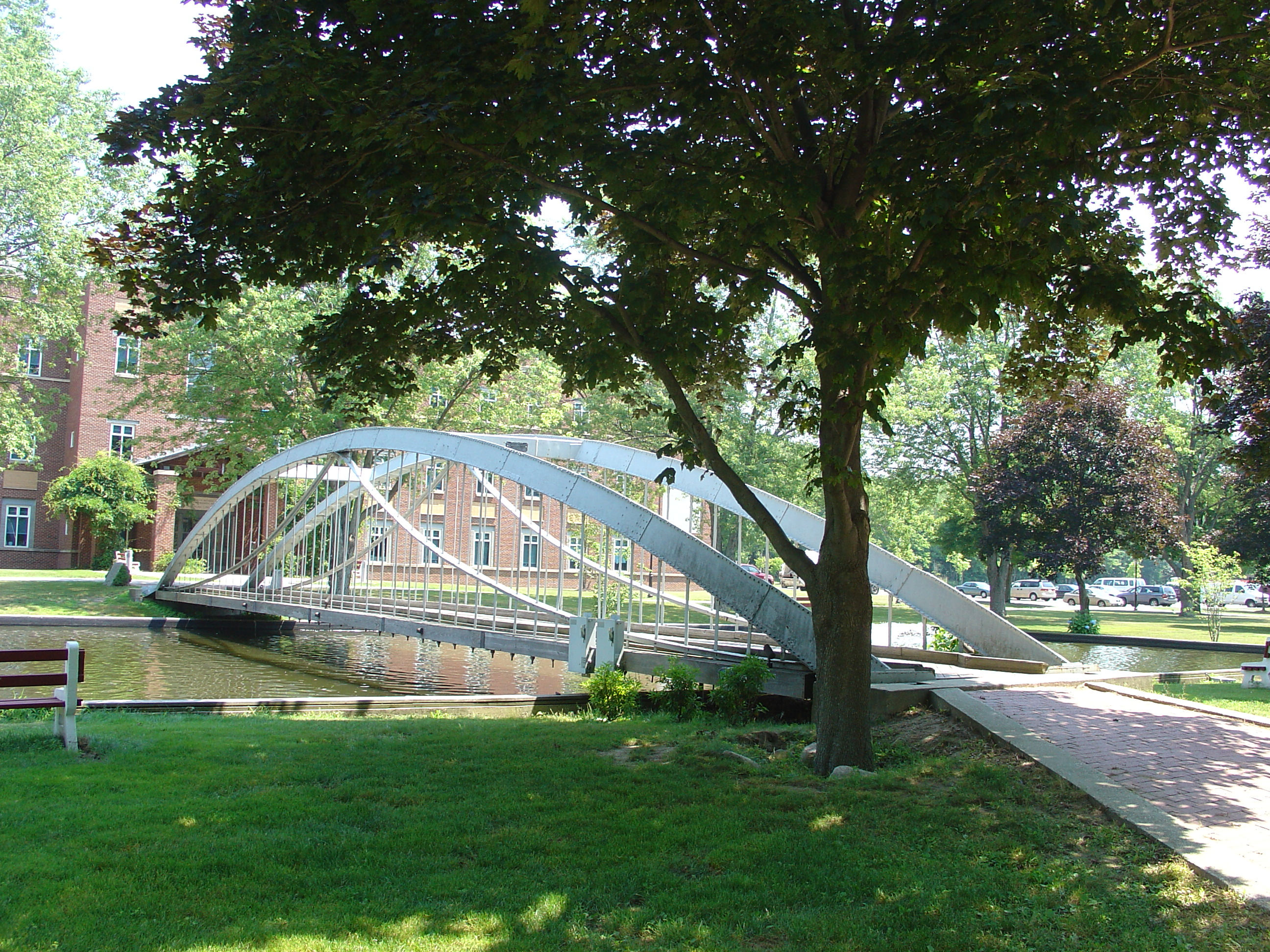 Photograph of the Moseley Arch, Merrimack College, North Andover, Massachusetts